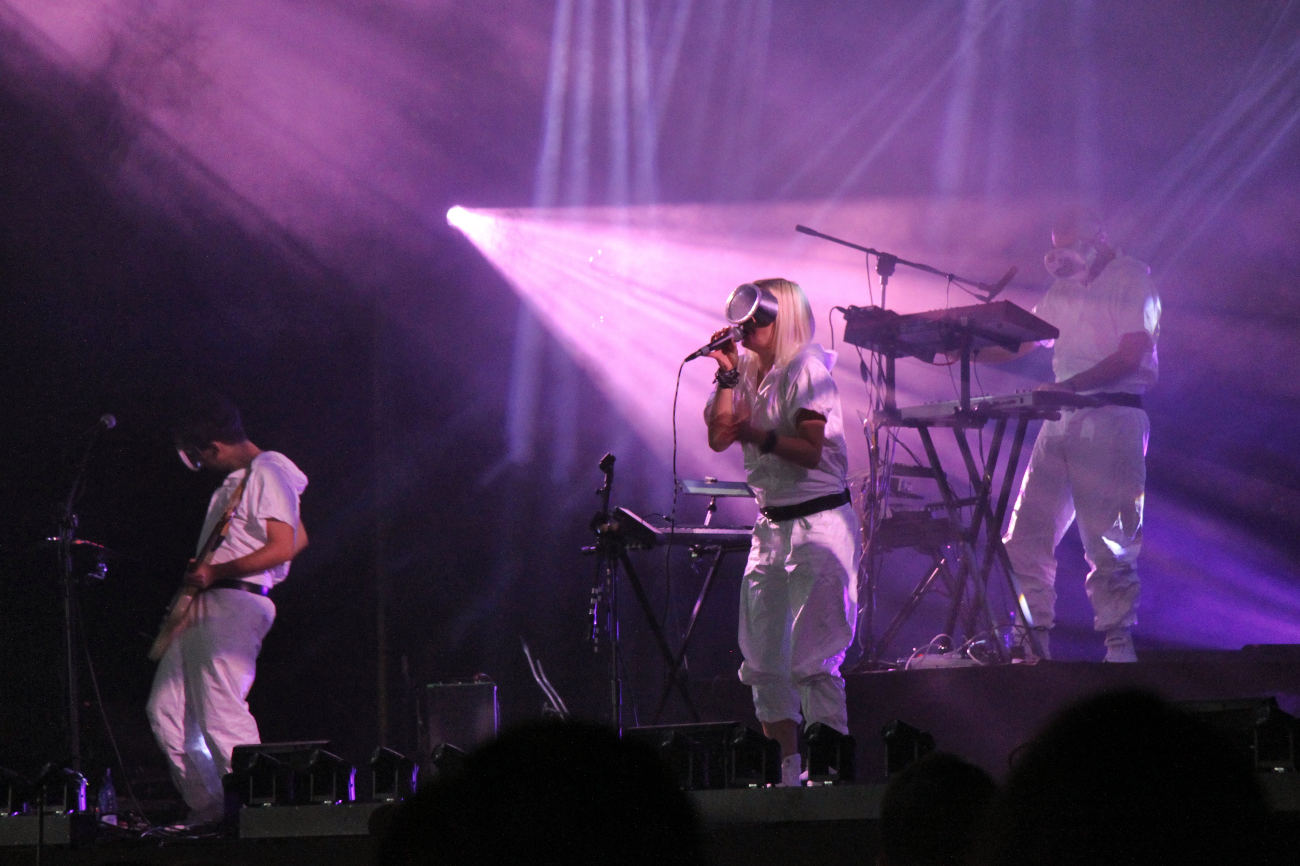 Bokka during Tauron Nowa Muzyka 2014 festival.